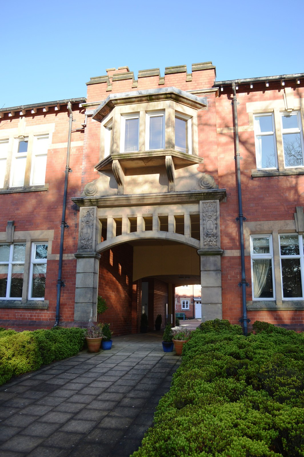 Riding School Drill Hall - Entrance to offices - Wolverhampton